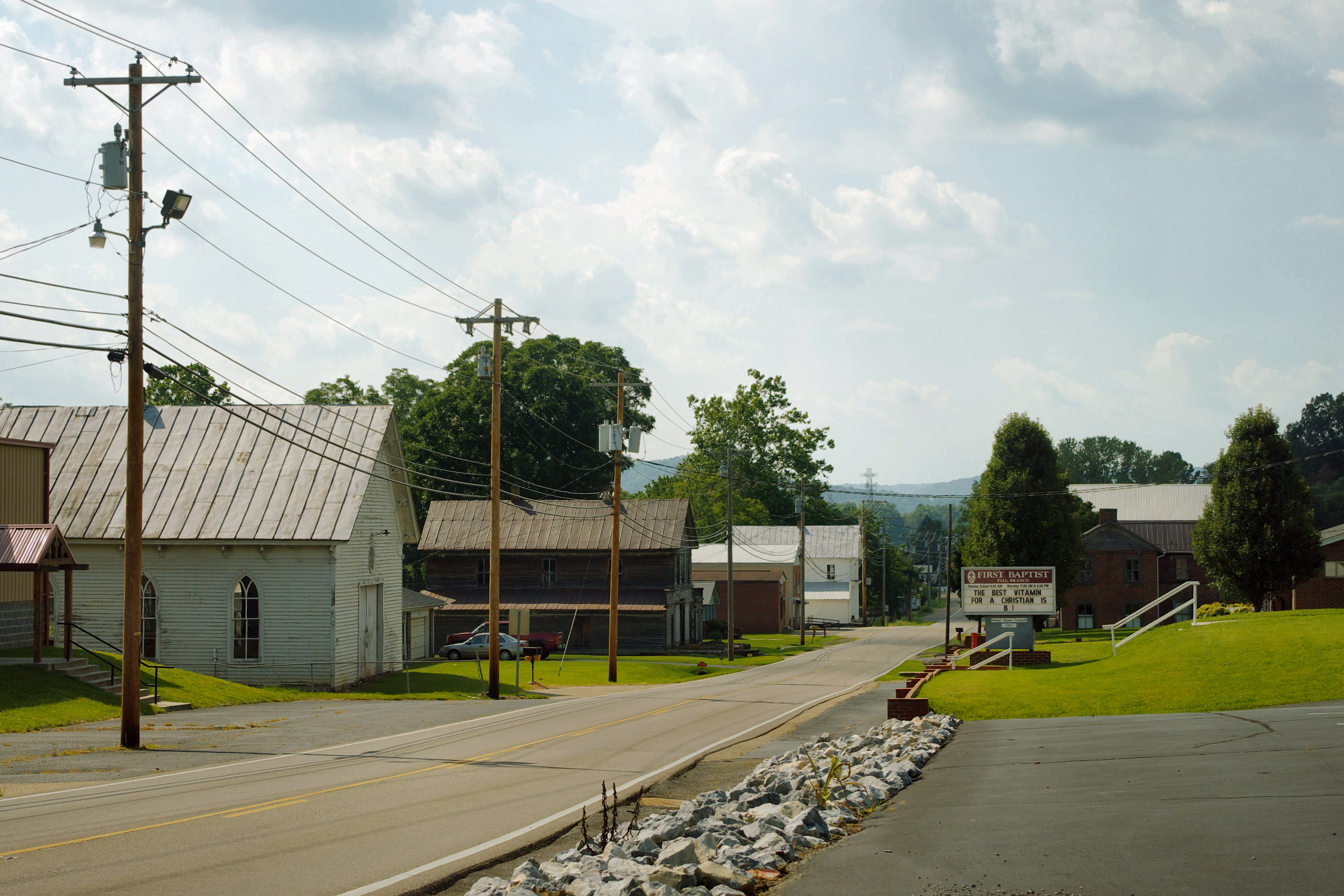 Tennessee State Route 93 in the Fall Branch community of Washington County, Tennessee, United States.